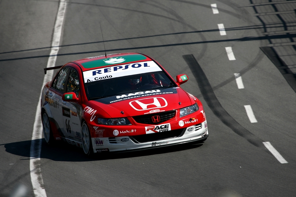 Macanese driver Andre Couto driving the Honda Accord for N.Technology in Macau Guia in 2008.